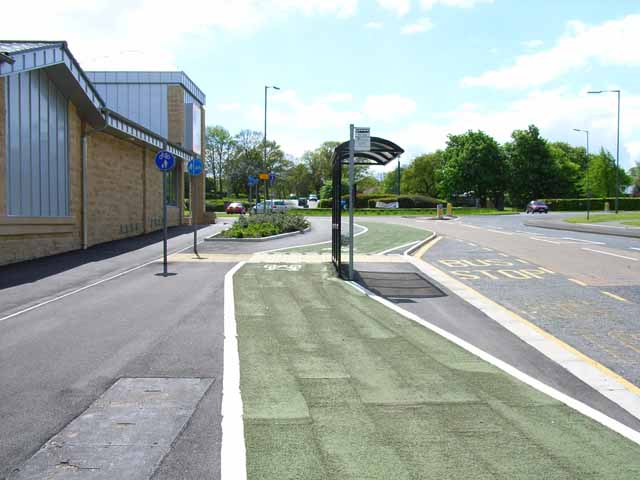 Catterick Garrison Town Centre. Roundabout and Aldi at the centre of Catterick Garrison. Established in 1908 and known until 1973 as Catterick Camp; Catterick Garrison is the largest garrison in the British Army. The town has a population of some 12,000 with many more troops stationed there temporarily; there is a full range of shops and other urban infrastructure.